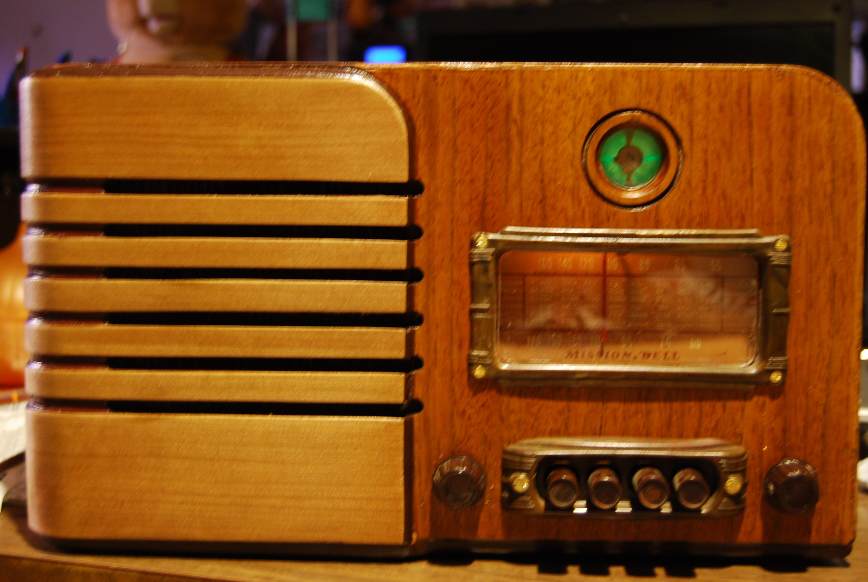 Magic Eye or Electron Ray Tubes invented by Allen DuMont were low cost alternatives to panel meters in the late 1930's to early 1940's. People like the green glow and the movement of the target as they tuned in a station.